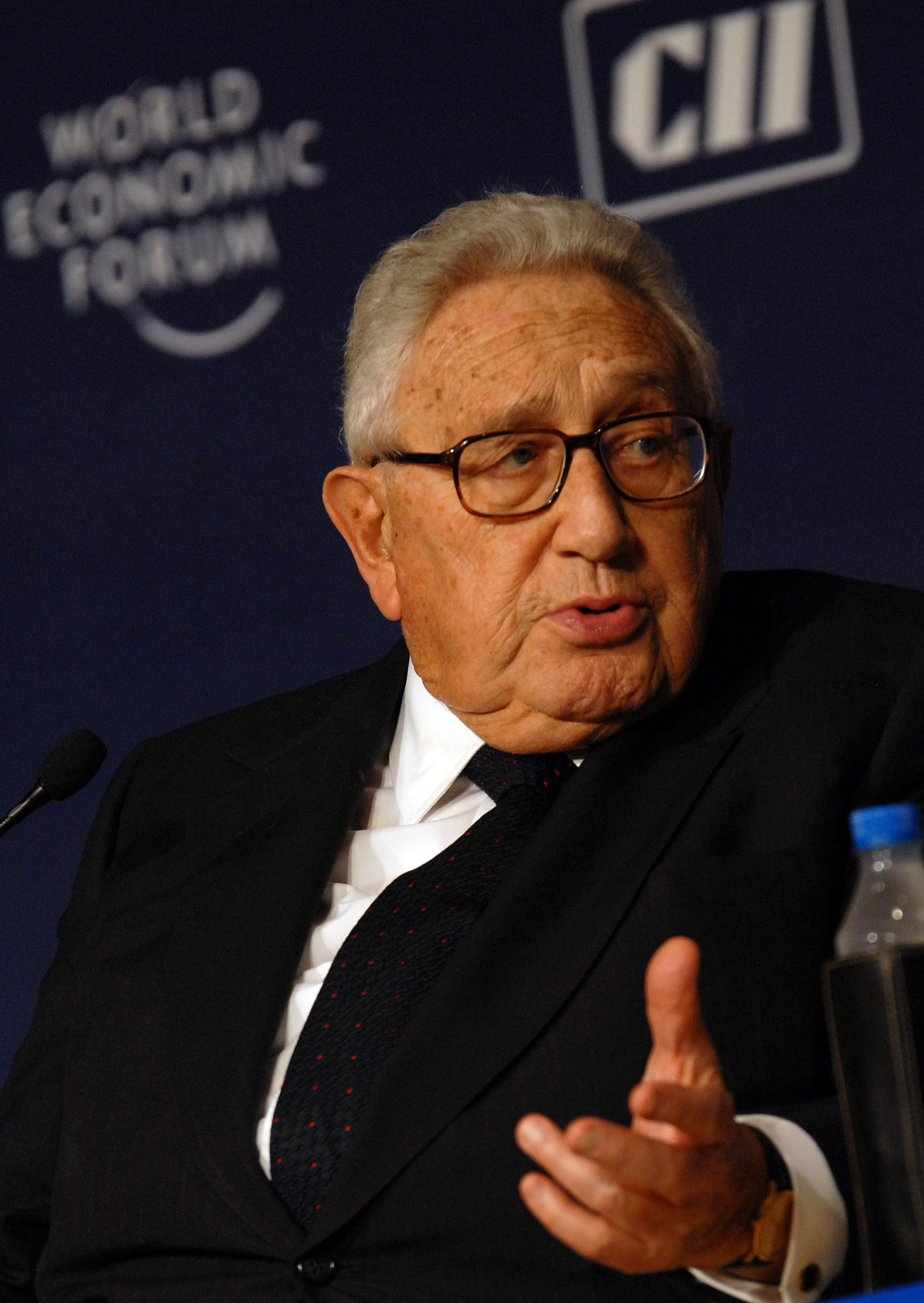 Henry Kissinger, at the World Economic Forum's India Economic Summit 2008, New Delhi.